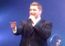 Americand Idol contestant Michael Sarver at the American Idol Concert in Tulsa, Oklahoma.